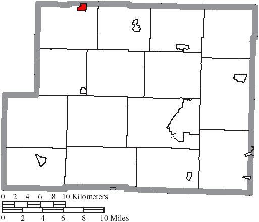 Map of the municipal and township boundaries of Harrison County, Ohio, United States, as of the 2000 census, with the location of the village of Bowerston highlighted. Township borders are shown only in unincorporated areas in order to differentiate incorporated and unincorporated areas more clearly.